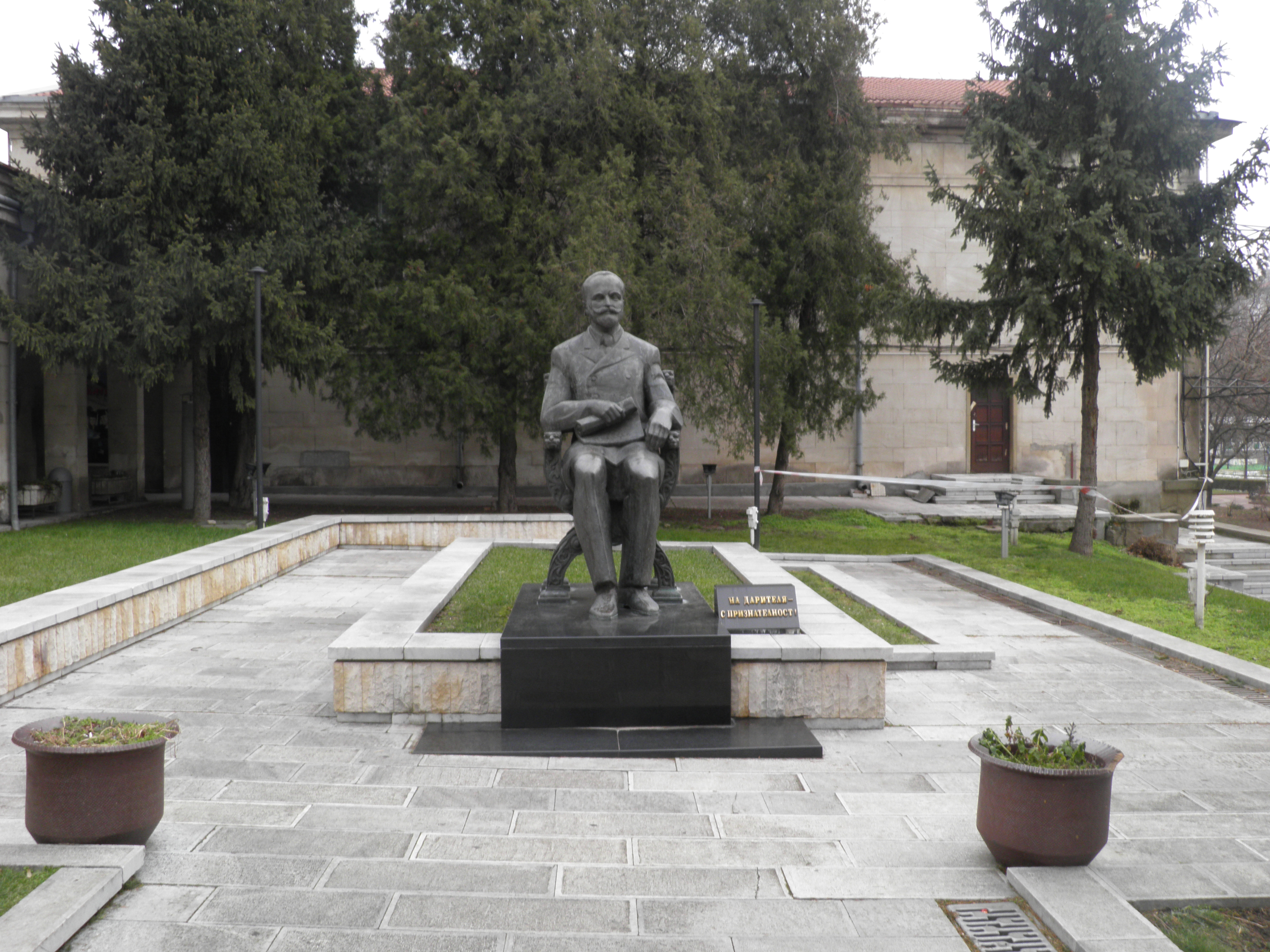 D. A. Tsenov Academy of Economics